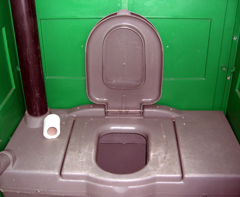 Inside view of a portable toilet. Baghdad, Iraq (April 2005). Photo by Peter Rimar.